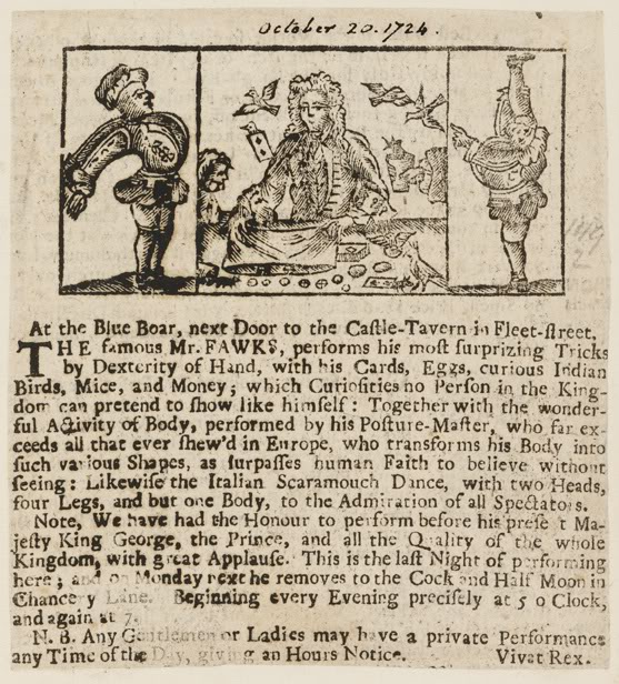 An advertisement for a show by conjuror Isaac Fawkes